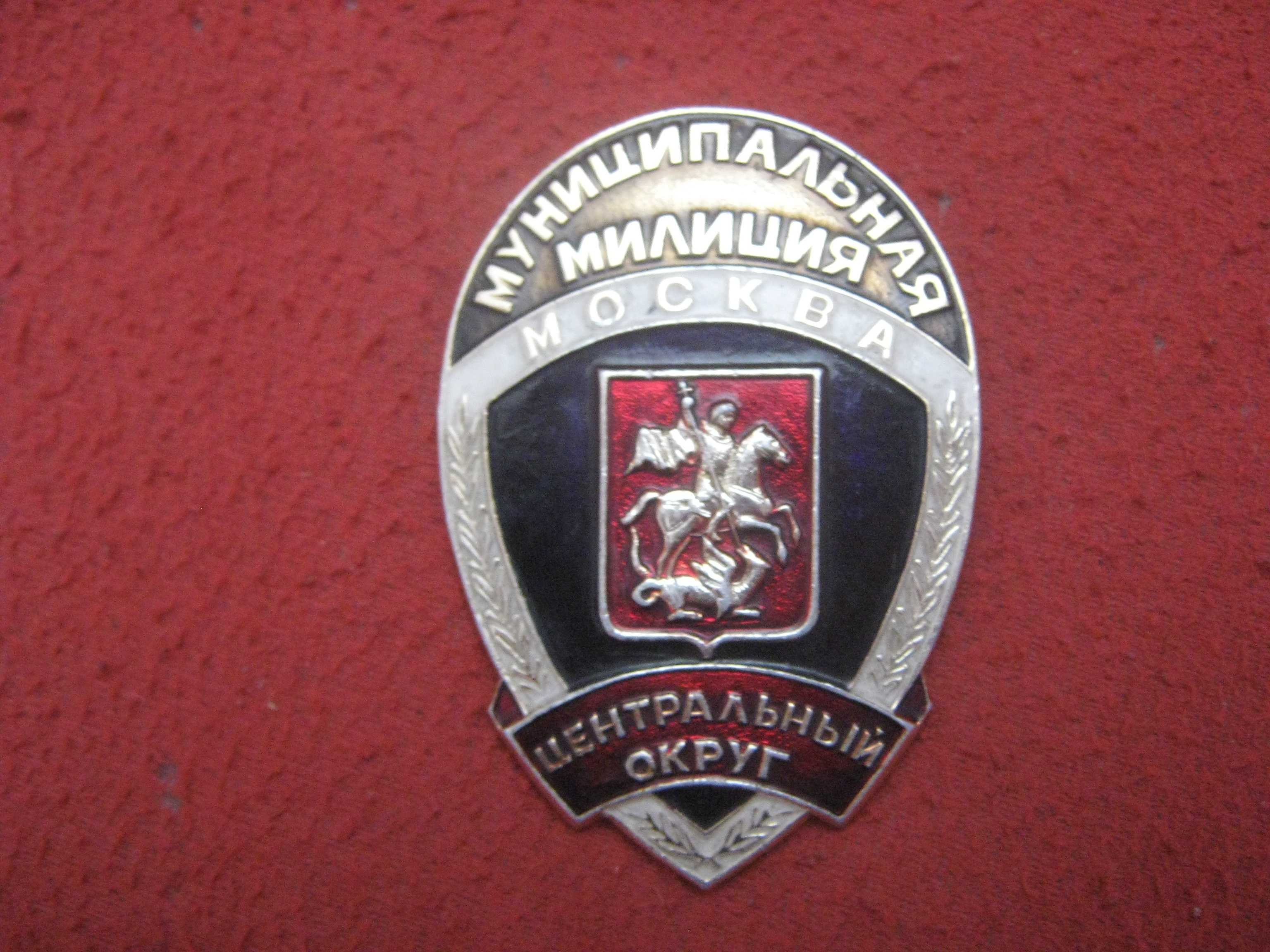 Badge(breastplate) of the Moscow Municipal Militia(now Police) Central District issued from the 1990s-2000s.